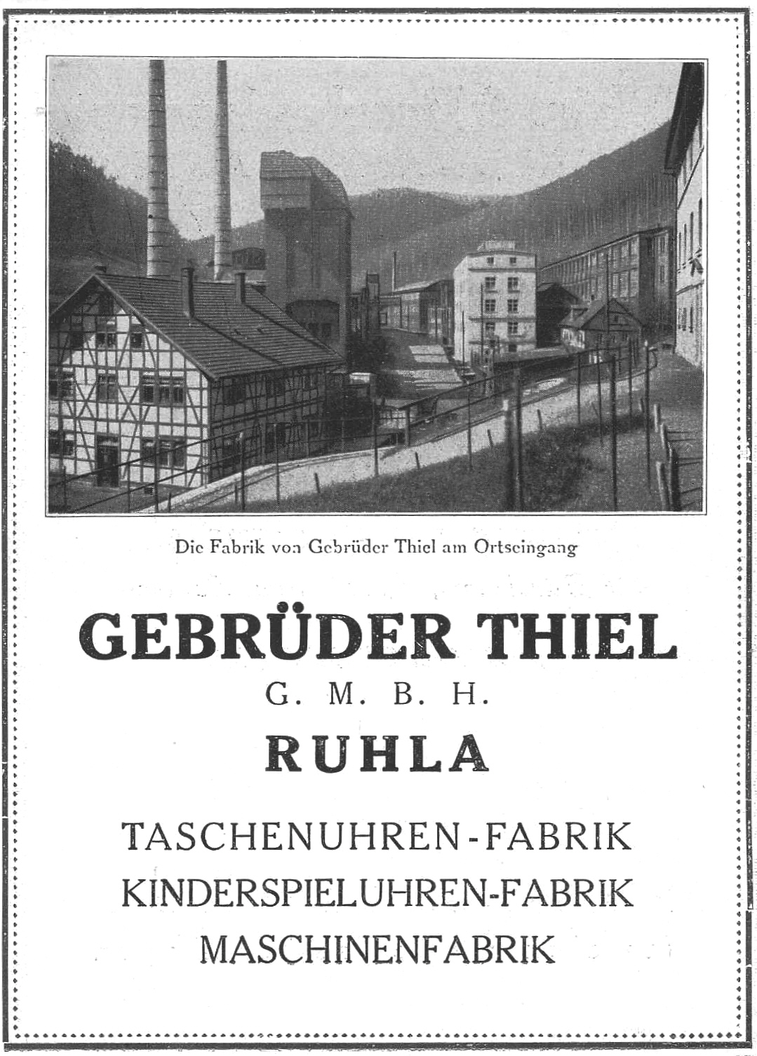 Ruhla, a advertisement for the Thiel factory.